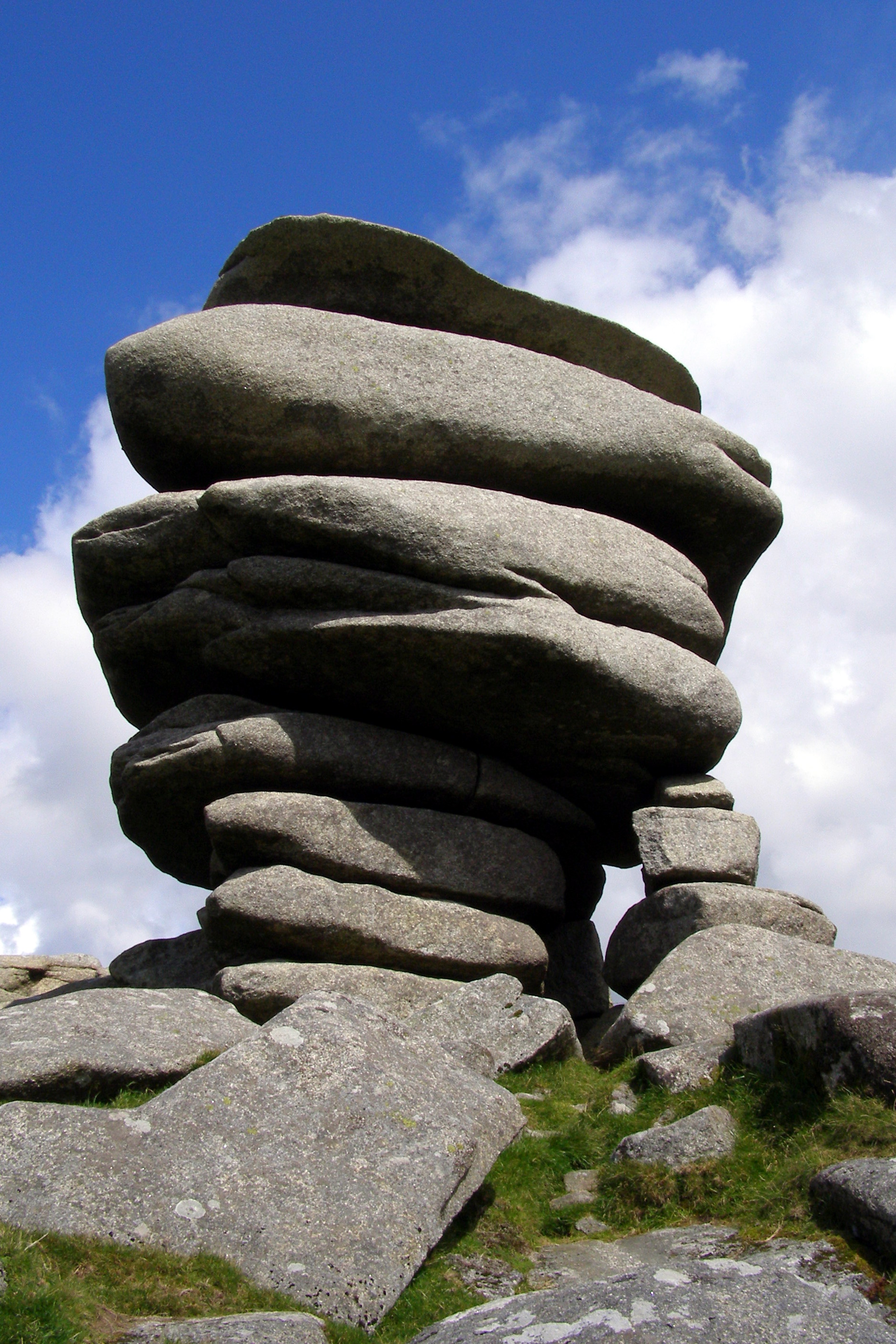 The Cheesewring, near Minions, Cornwall, U.K.